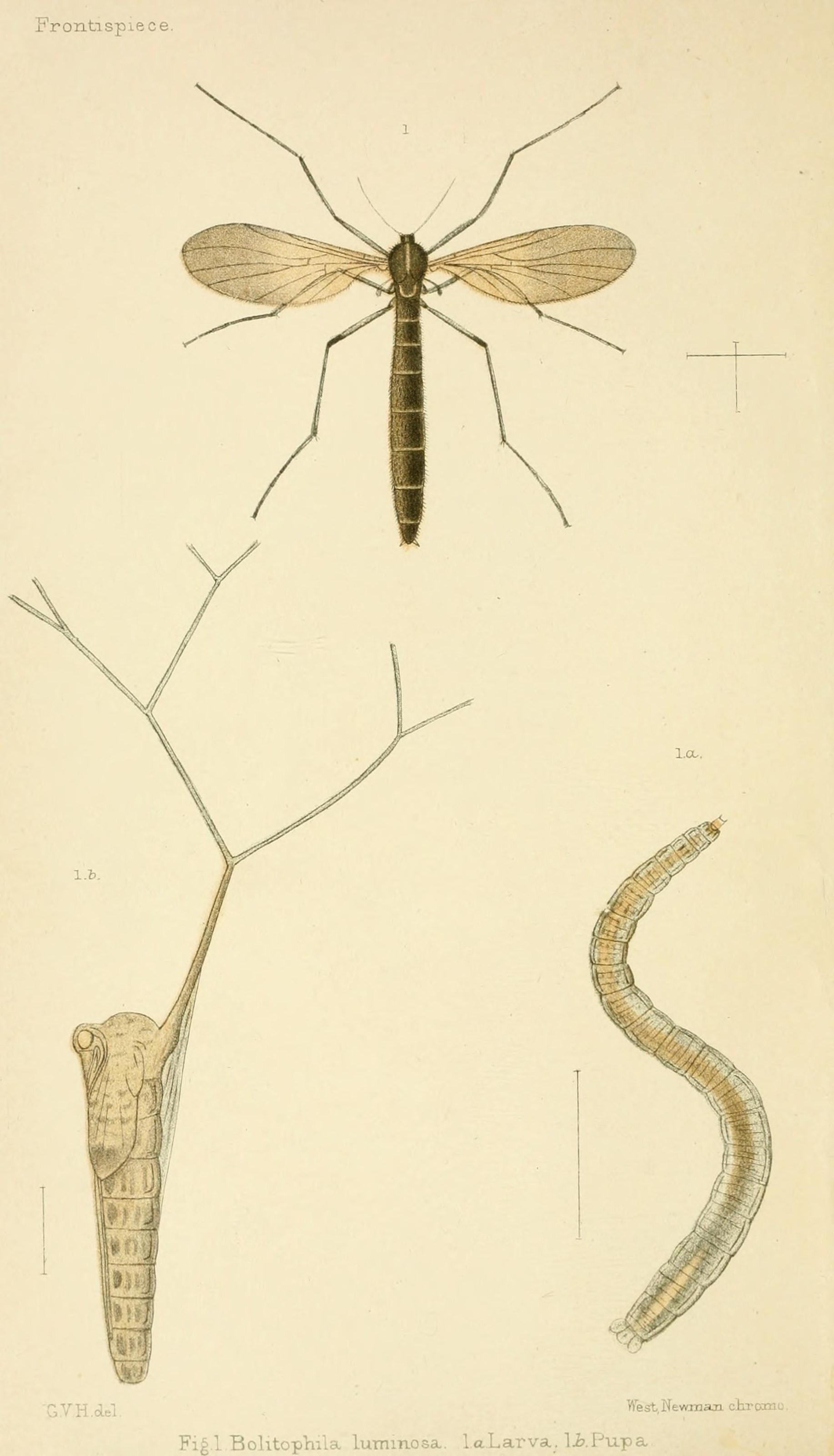 An elementary manual of New Zealand entomology; being an introduction to the study of our native insects. Frontispiece. Fig.Name in textAccepted name (2017)1Bolitaphila luminosaArachnocampa luminosa (Skuse, 1891)1aBolitaphila luminosa (Larva)Arachnocampa luminosa (Skuse, 1891)1bBolitaphila luminosa (Pupa)Arachnocampa luminosa (Skuse, 1891)